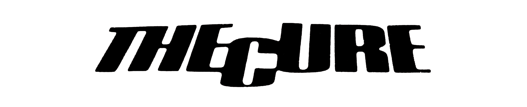 Early logo of The Cure's band